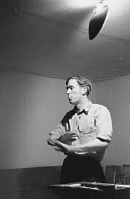 Leif Dahl, organizer of agricultural workers union speaking at union meeting in Bridgeton, New Jersey, 1936.